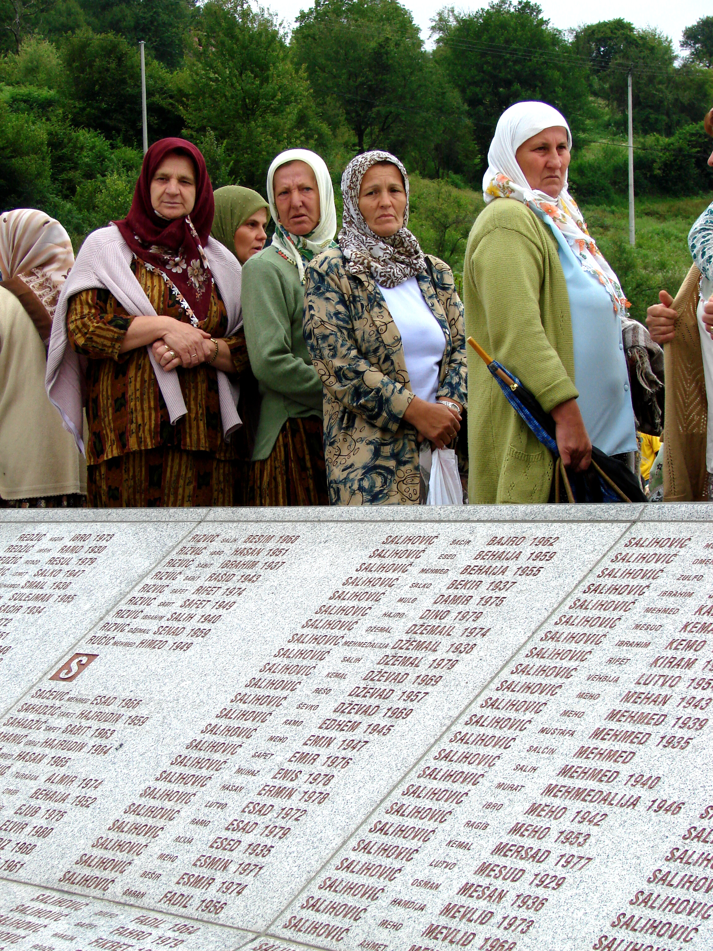 Women at the monument for victims of the July 1995 Srebrenica Massacre. At the annual memorial ceremony in Potocari, Bosnia and Herzegovina. July 11, 2007.